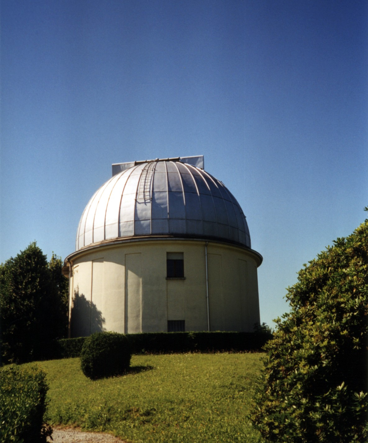 Brera Astronomical Observatory at Merate (LC), (Osservatorio Astronomico di Brera-Merate), dome of Ruths telescope